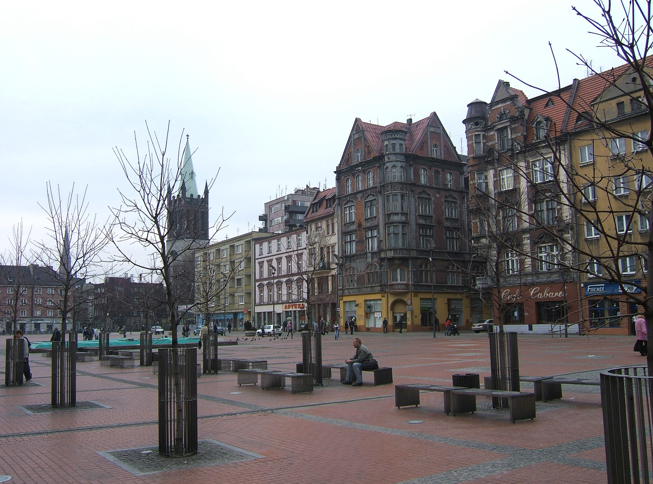 The market square in Bytom.